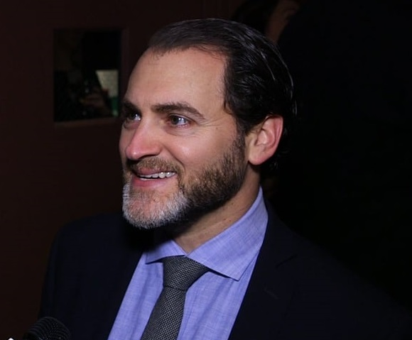 American actor Michael Stuhlbarg interviewed by Arthur Kade of Behind The Velvet Rope at the Casting Society of America 30th Artios Awards.